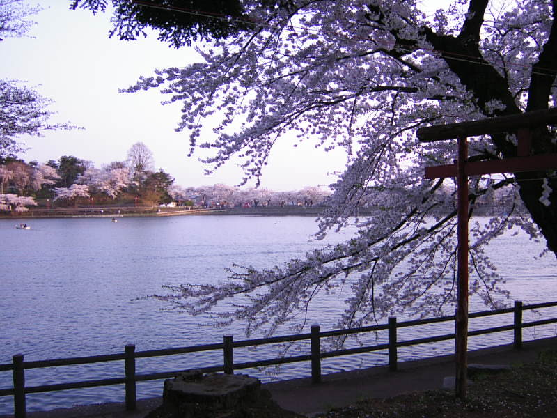 The Takamatsu Pond in the Takamatsu Park in Morioka, Iwate.